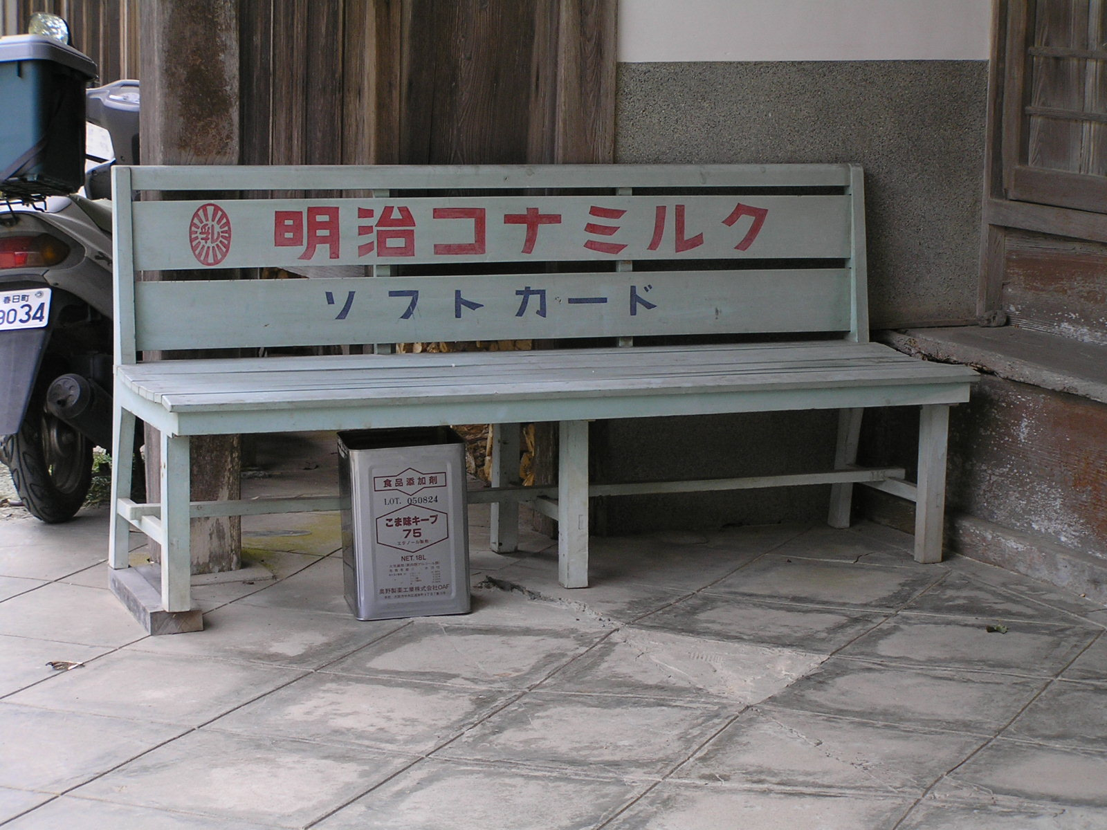 Nostalgic Benche in Japan.